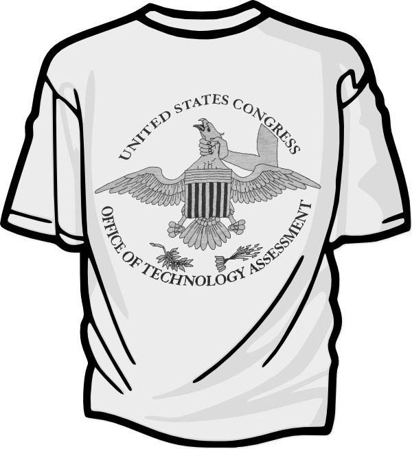 Back of OTA termination staff protest shirt. See also File:OTAShirt-Front.png